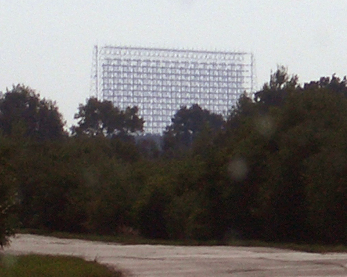 Cropped version of File:The Russian Woodpecker, photo 2, Chernobyl exclusion zone.jpg just showing the radar array.